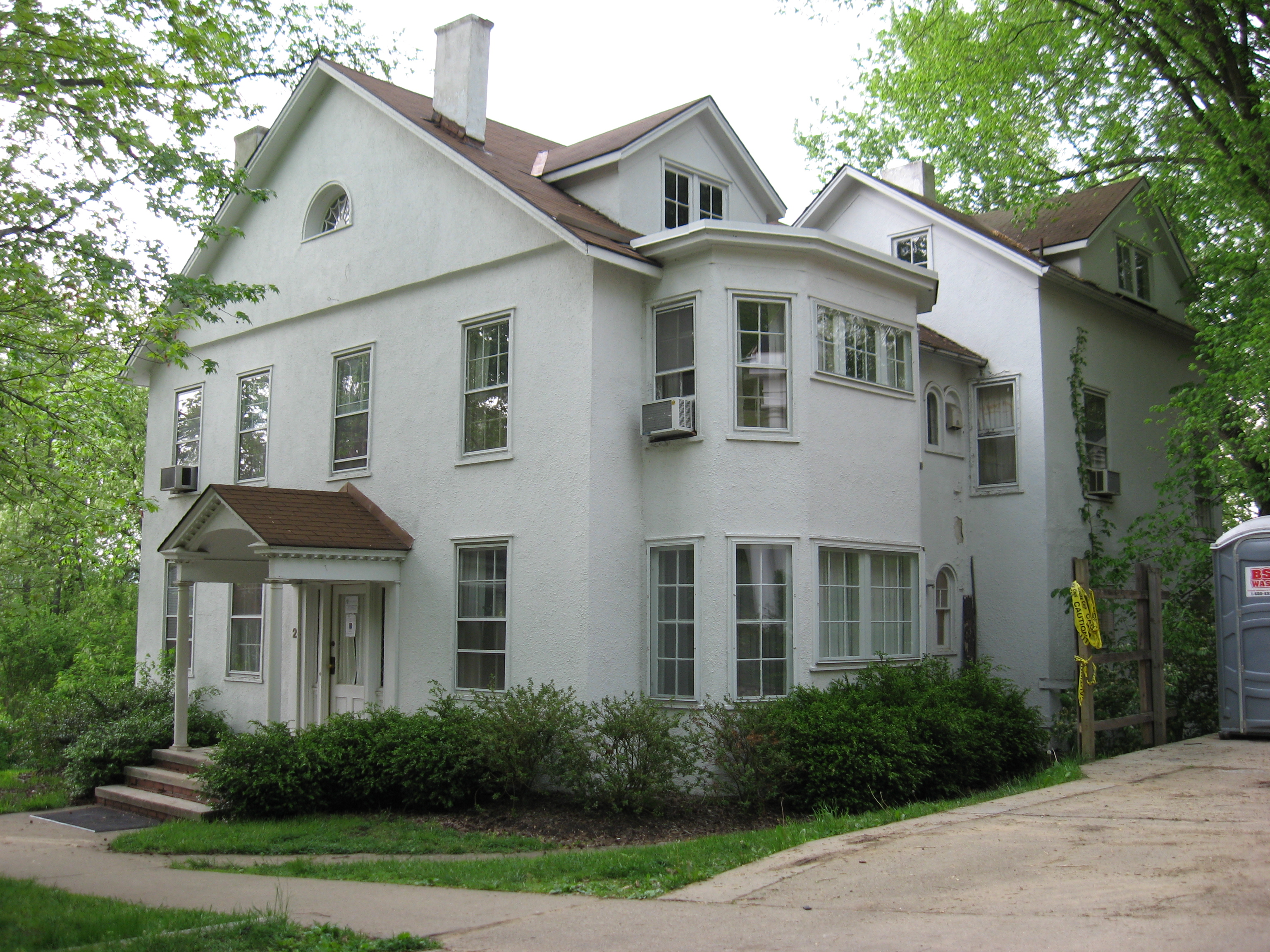 Brown House, location of the Contemporary History Institute at Ohio University (Athens, USA)